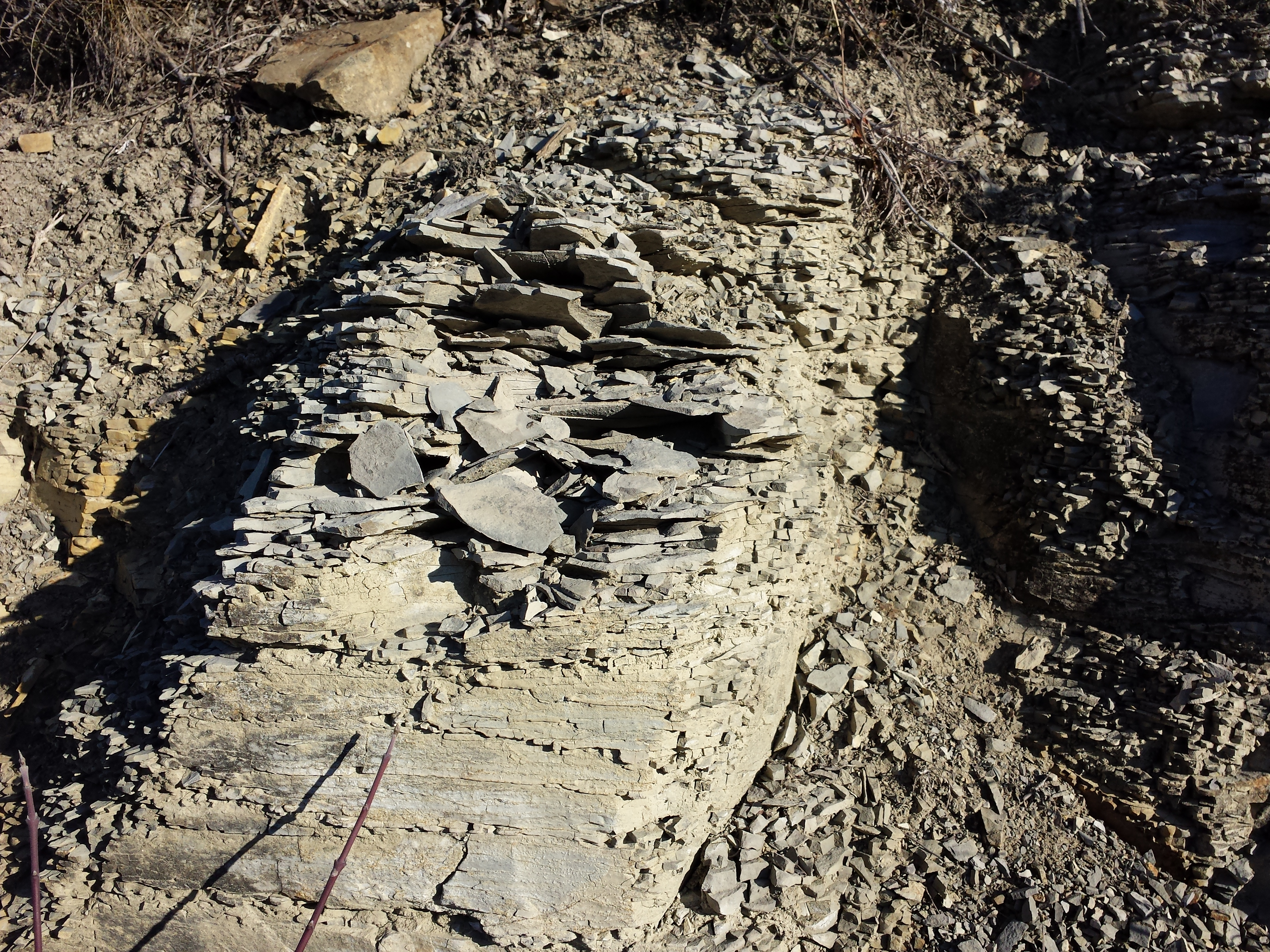 Ground opening of Kahlenberg-Formation (Flysch) at west slope of Bisamberg, district Korneuburg, Lower Austria